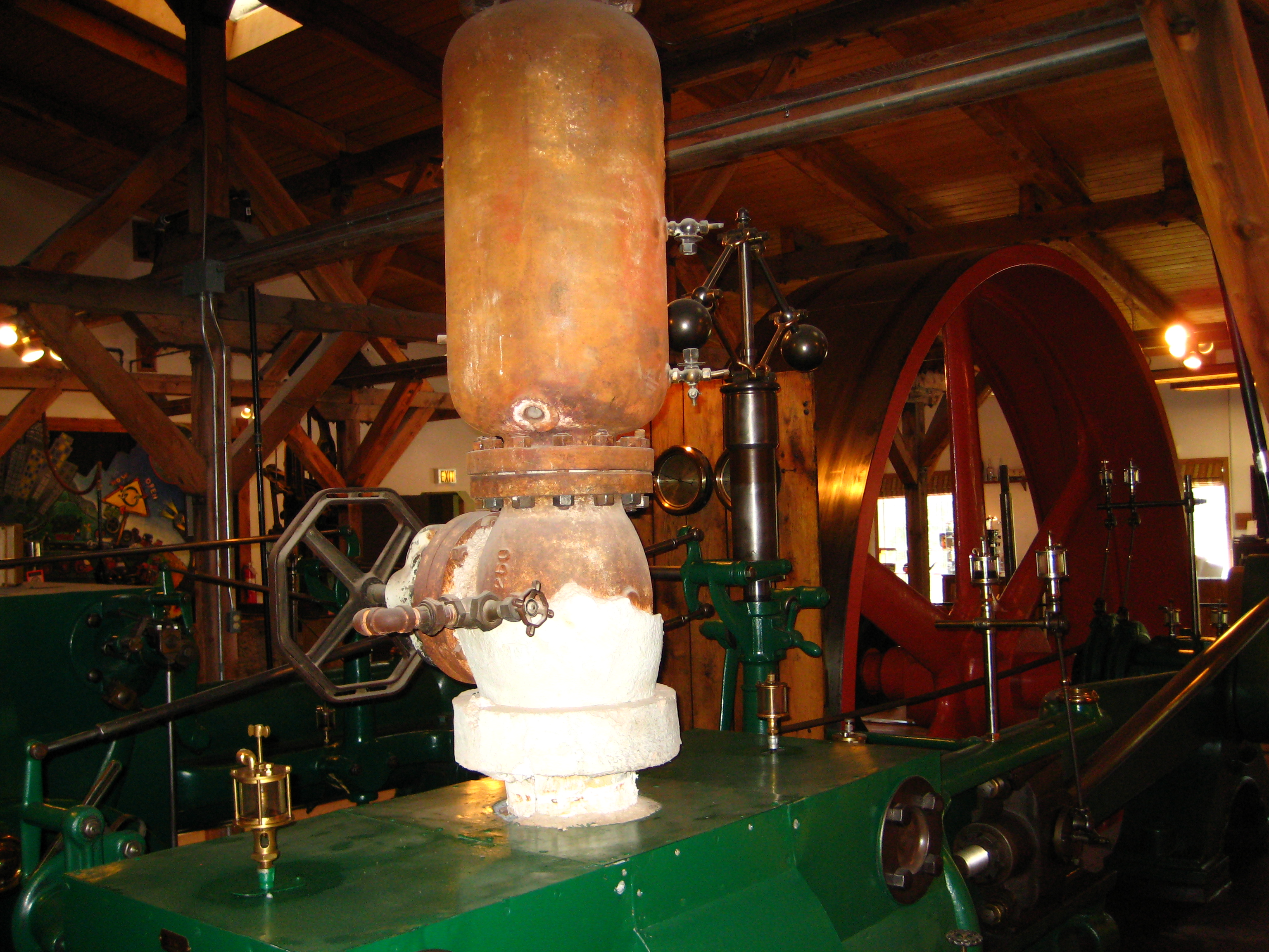 Colorado Springs, CO: Western Museum of Mining and Industry - 500 hp Corliss Steam Engine 01732